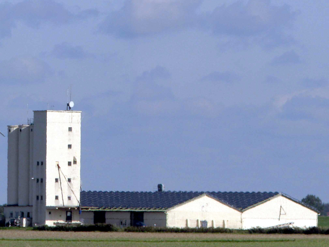 Storage silo owned by agriculture trade company 'ATR Landhandel' in the municipality of Reußenköge